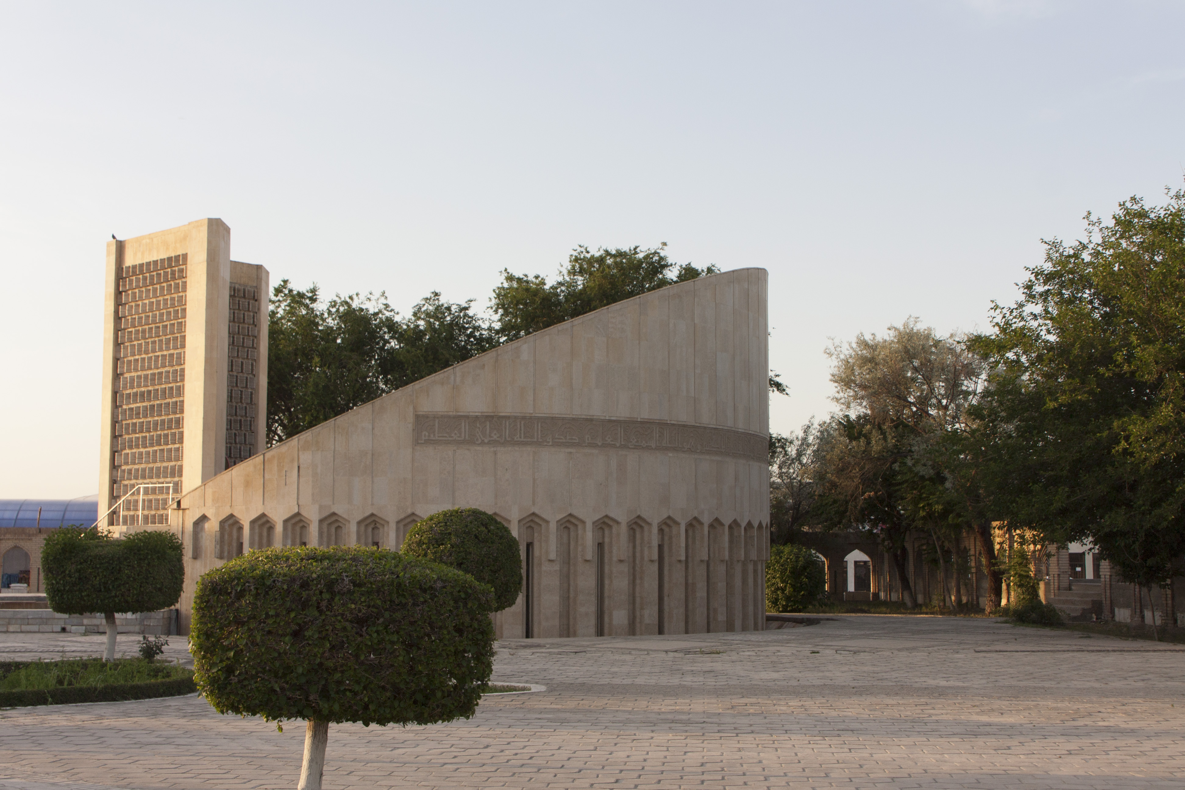 Memorial Imom Al Bukhari